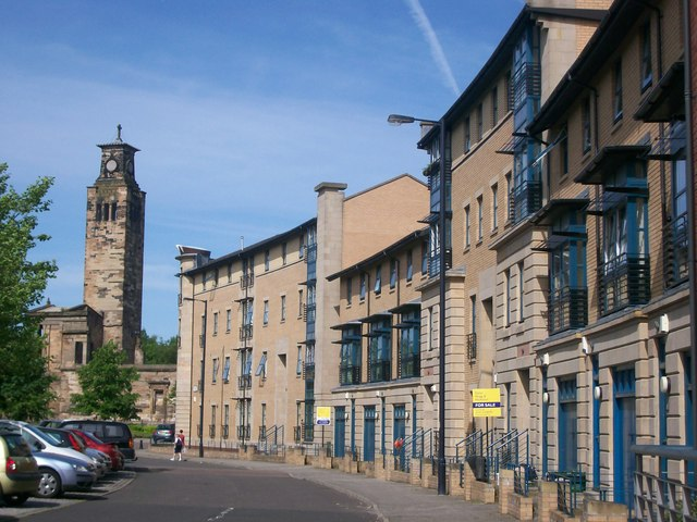 Alexander Crescent, Gorbals This is one part of the successful regeneration of what was once one of Glasgow's most notorious areas